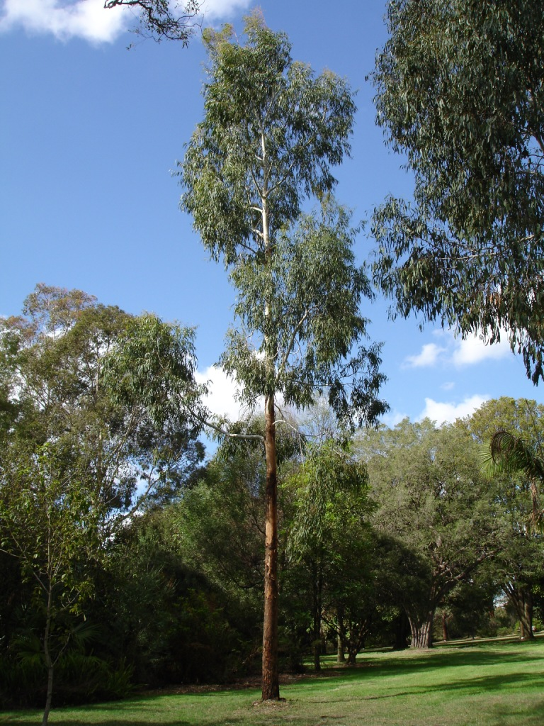 Juvenile Eucalyptus viminalis. Photographed at Maranoa Gardens, Melbourne, Victoria, Australia by HelloMojo 09:07, 6 April 2007 (UTC)